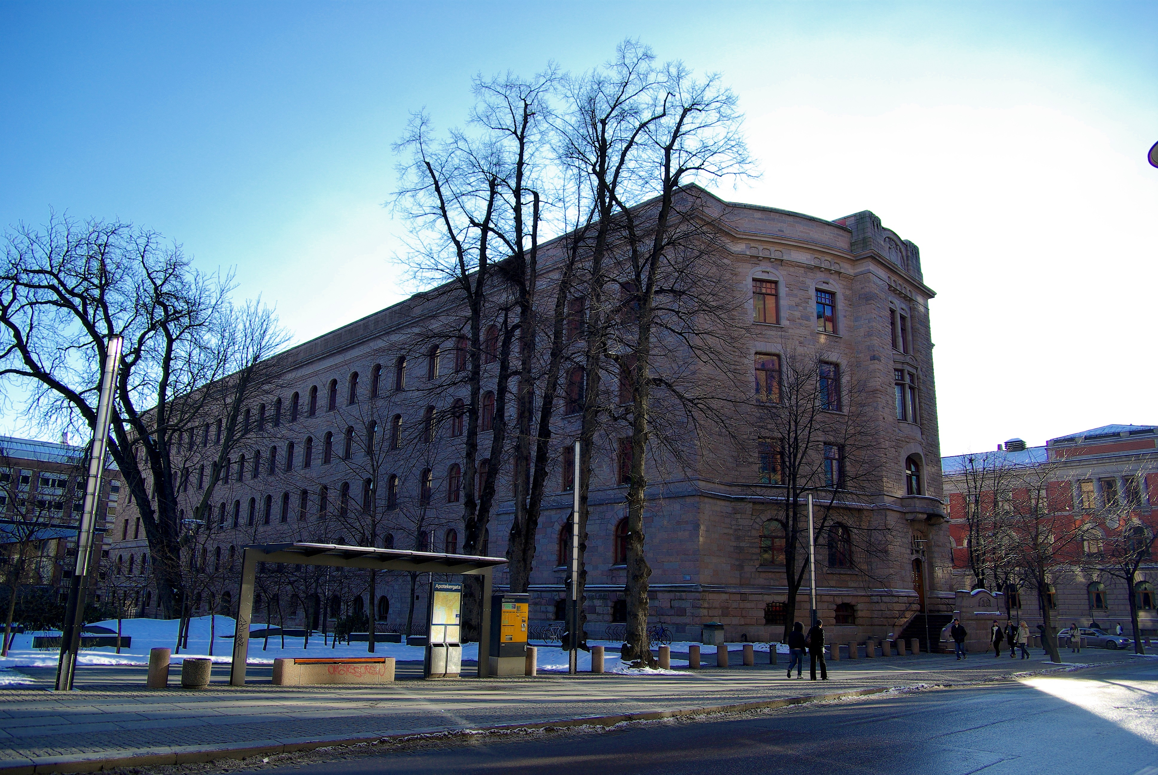 The finance department in Norway (finansdepartementet), Oslo, Norway.